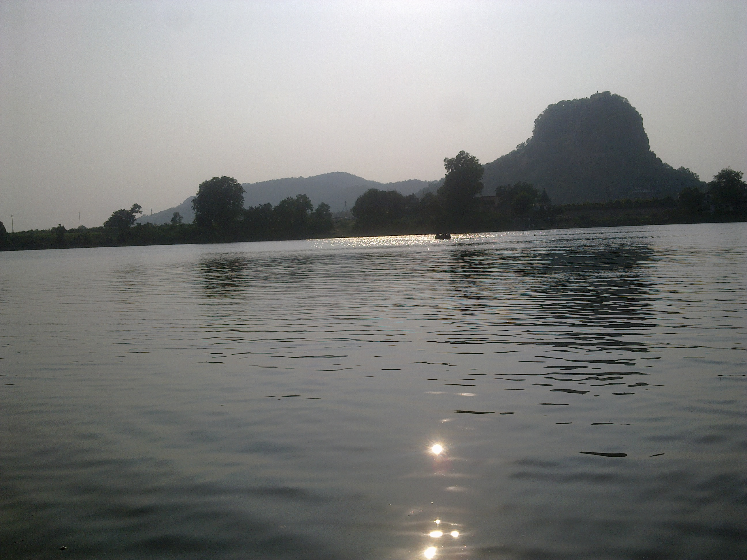 Ambhora-a place in Kuhi Tahsil of Nagpur is very scenic place.